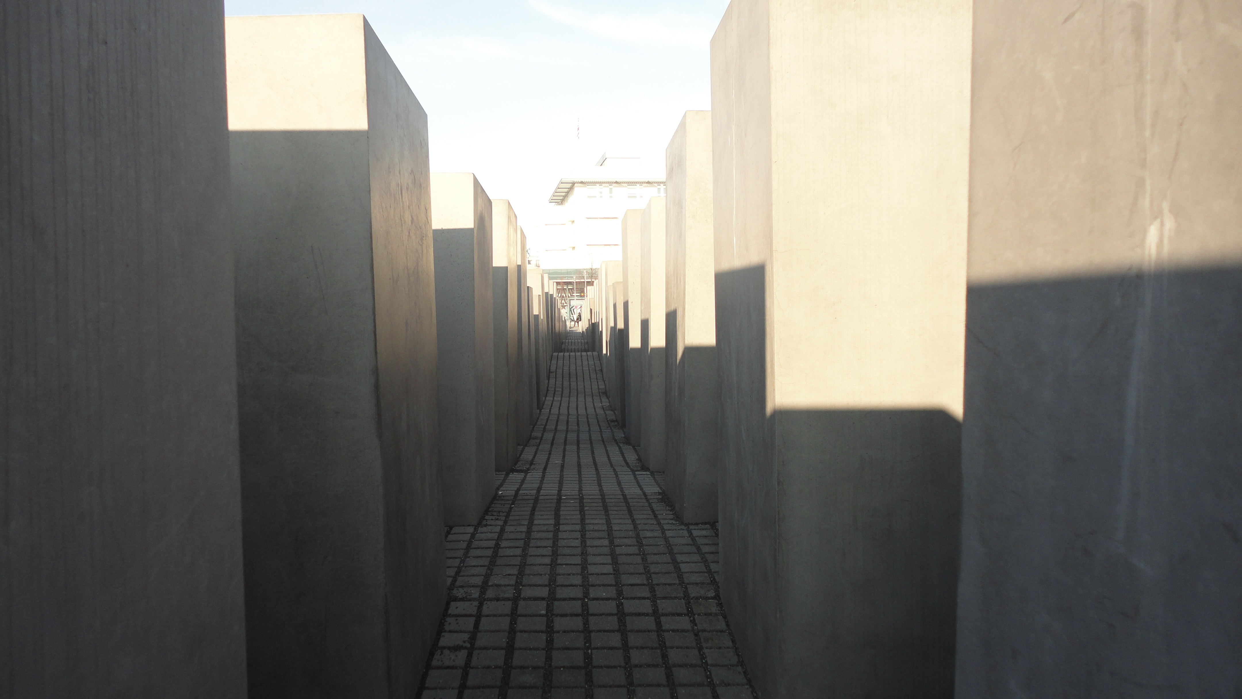 The photo shows a transition of the Holocaust Memorial in Berlin; the ground is undulating.